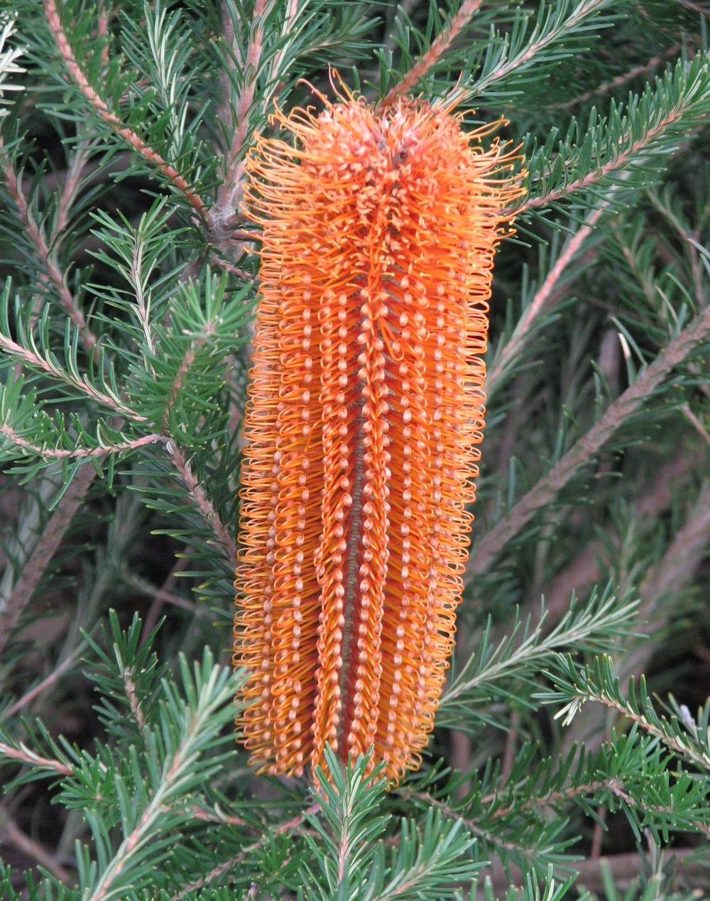 Banksia 'Yellow Wing' (cultivated, labelled) Australian Garden, Royal Botanic Gardens Cranbourne, Victoria, Australia